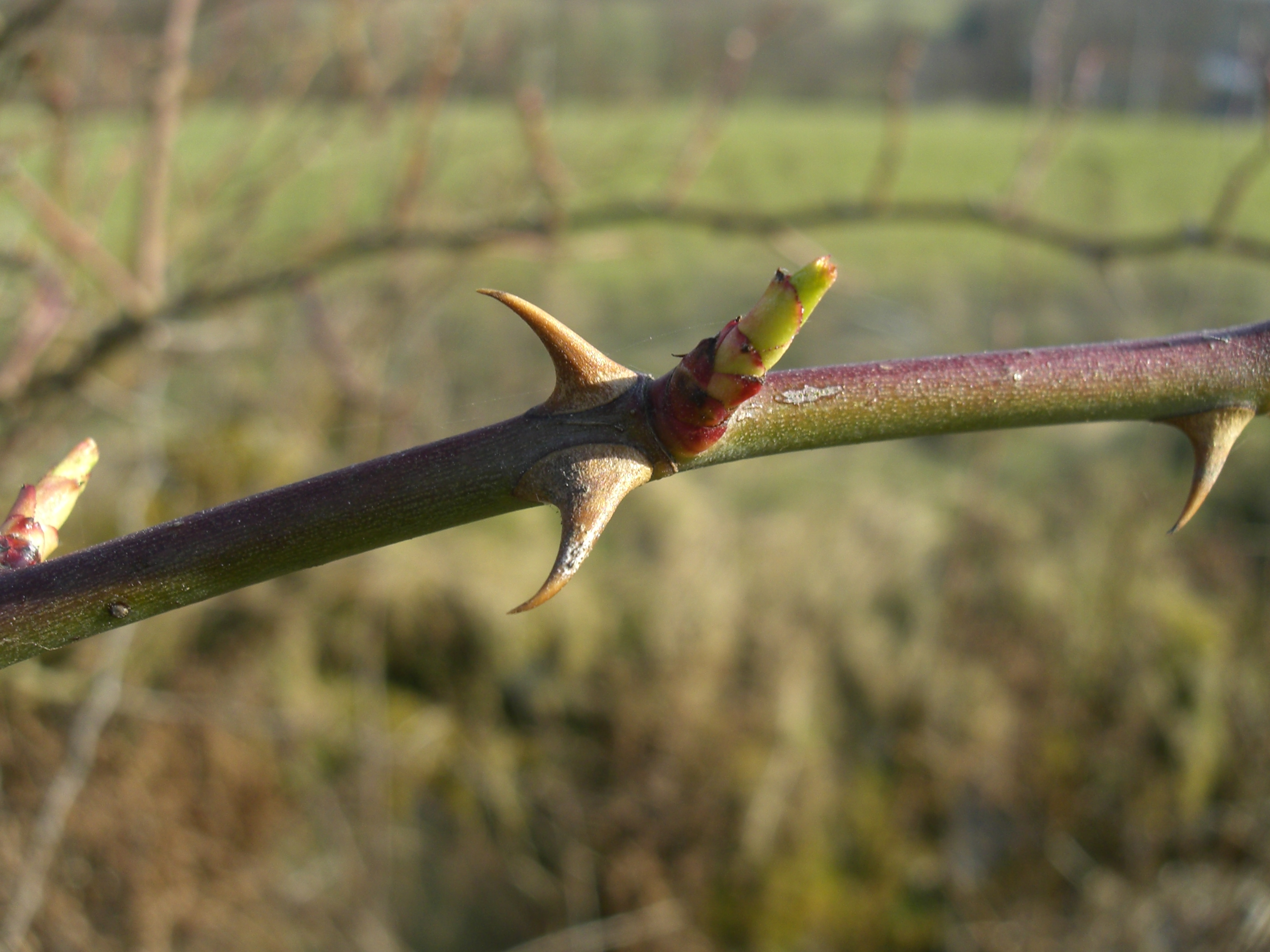 Throns on the Rosa canina. Czech countryside